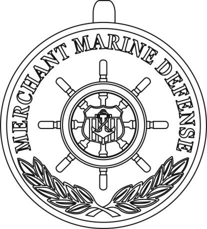 Merchant Marine Defense Medal obverse